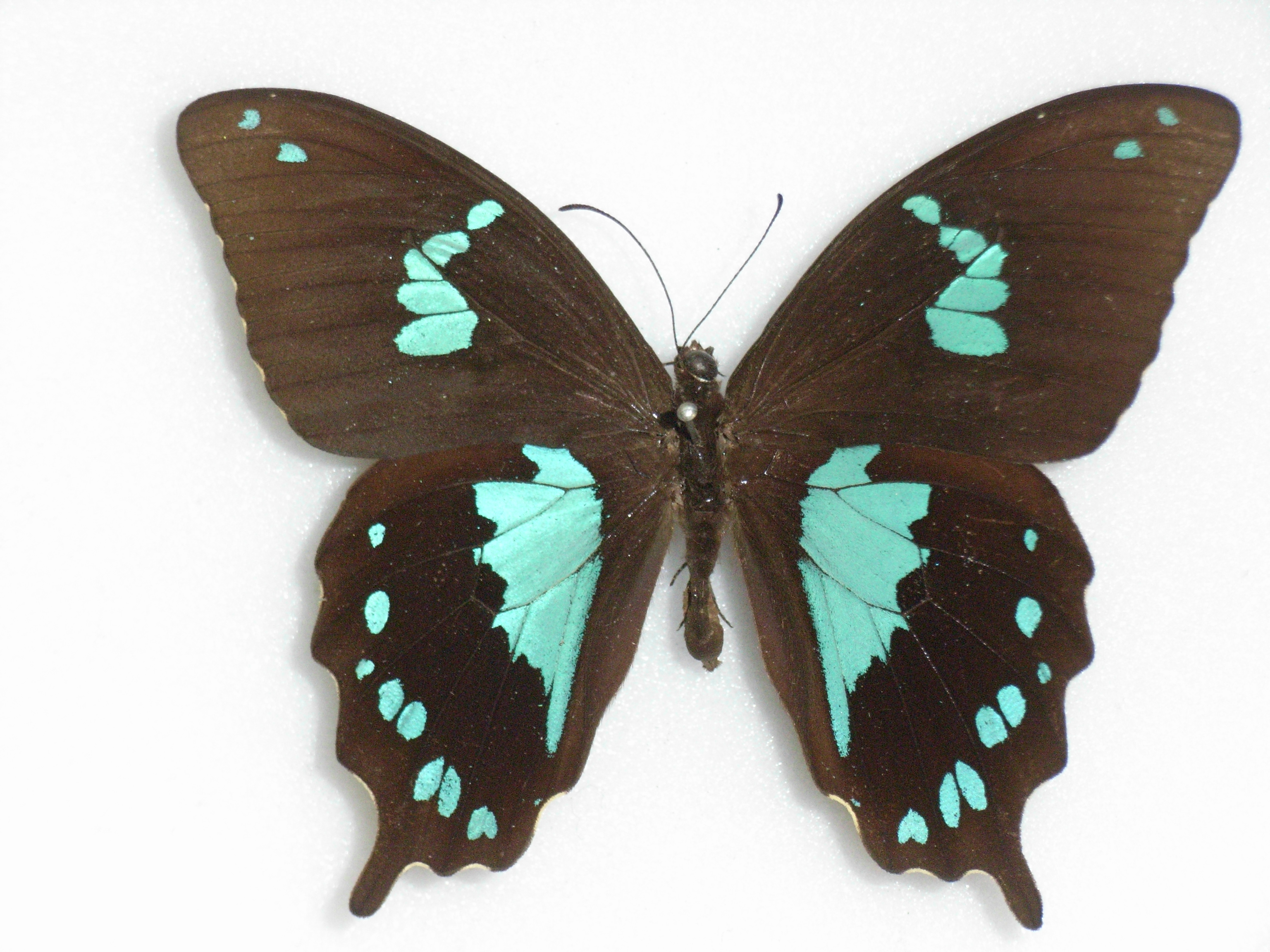 Papilio epiphorbas Boisduval, 1833 Male